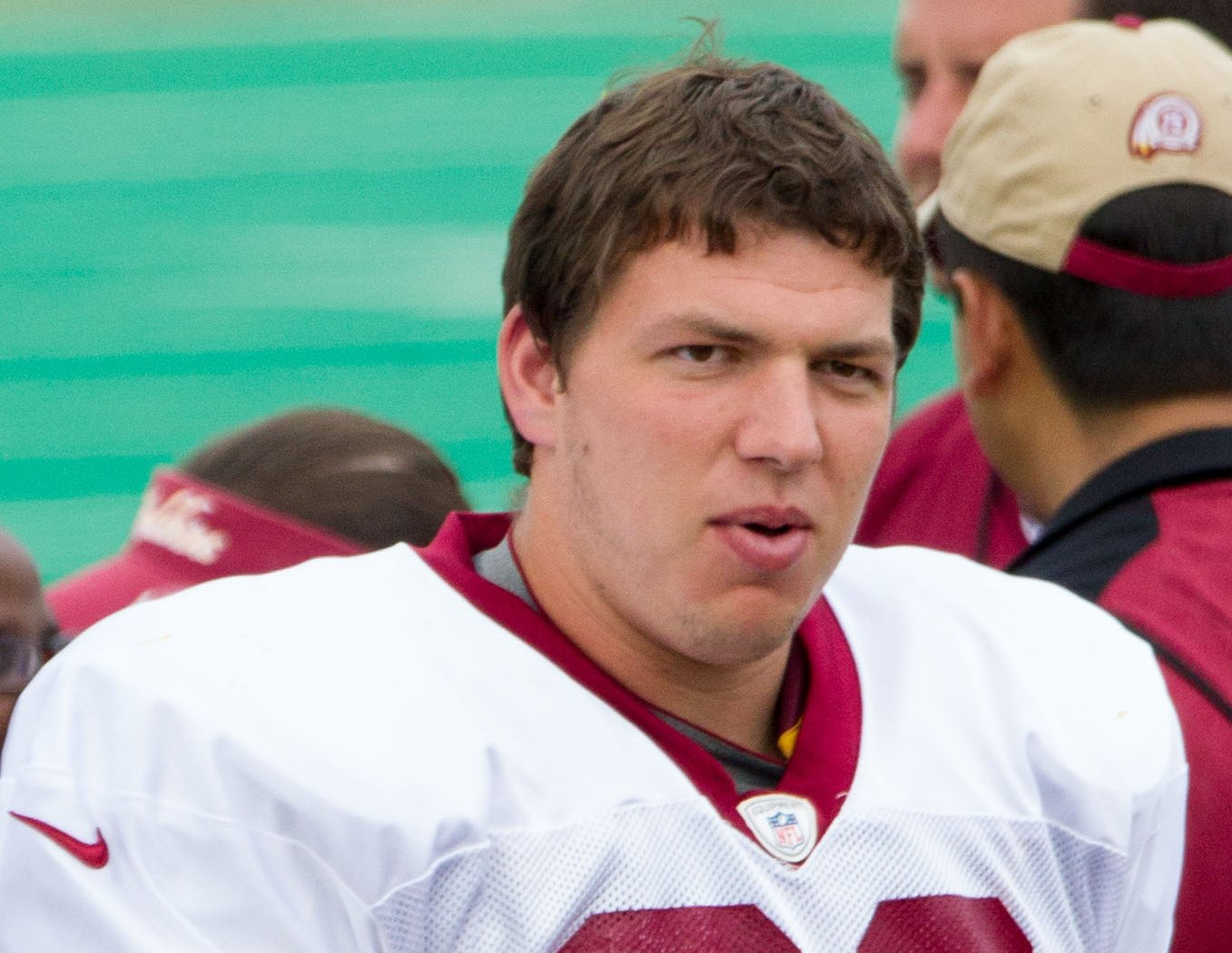 Washington Redskins Training Camp July 31, 2012